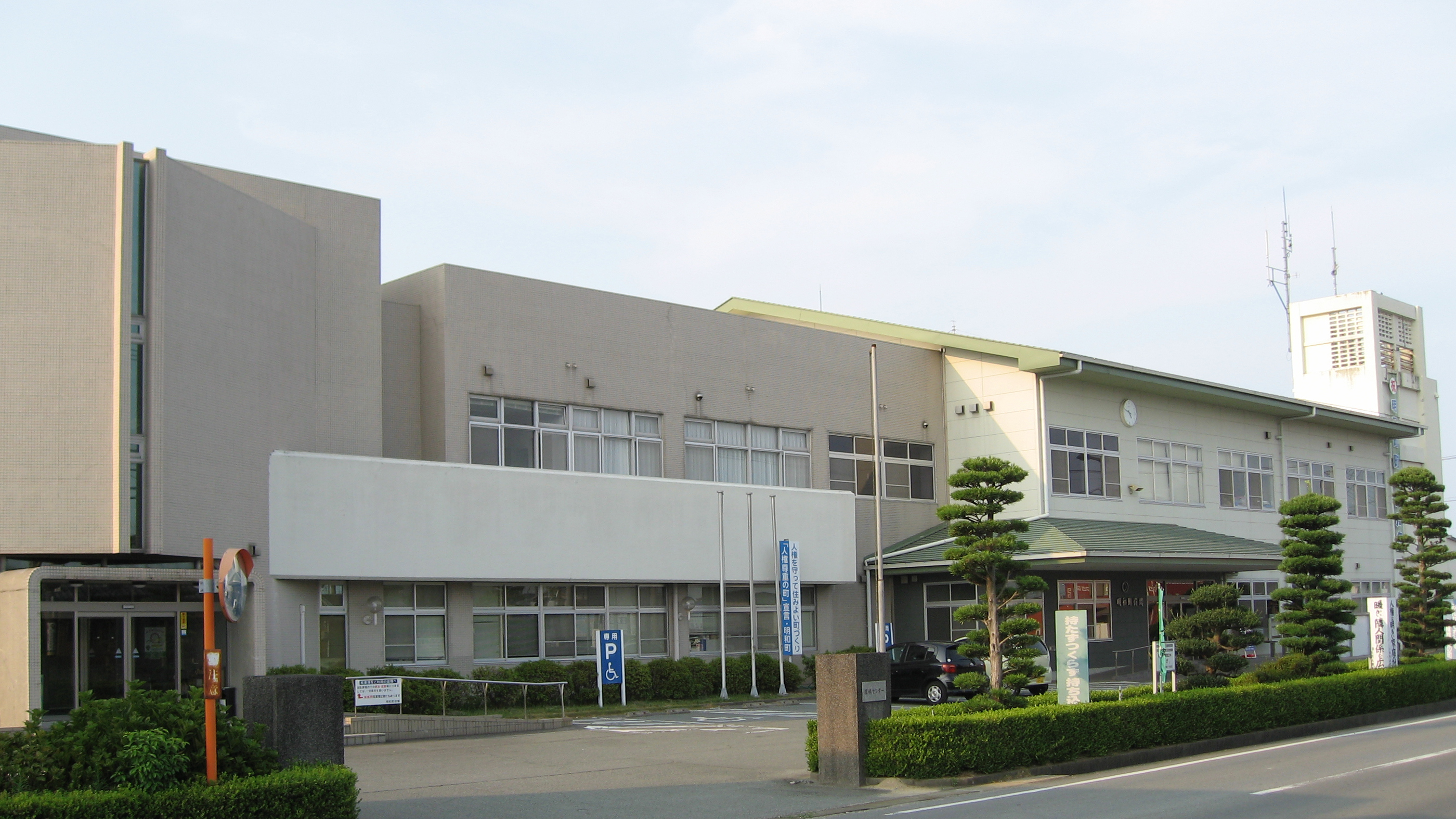 Meiwa townhall I took this image at Umanoue Meiwa Taki Mie Pref., Japan.